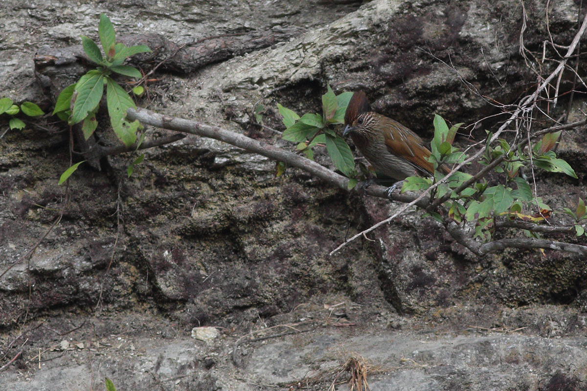 The subspecies 'cranbrooki' Striated Laughingthrush was photographed from Eaglenest wildlife sanctuary Arunachal Pradesh India during GoingWild's (w birding tour on 20.03.2019.